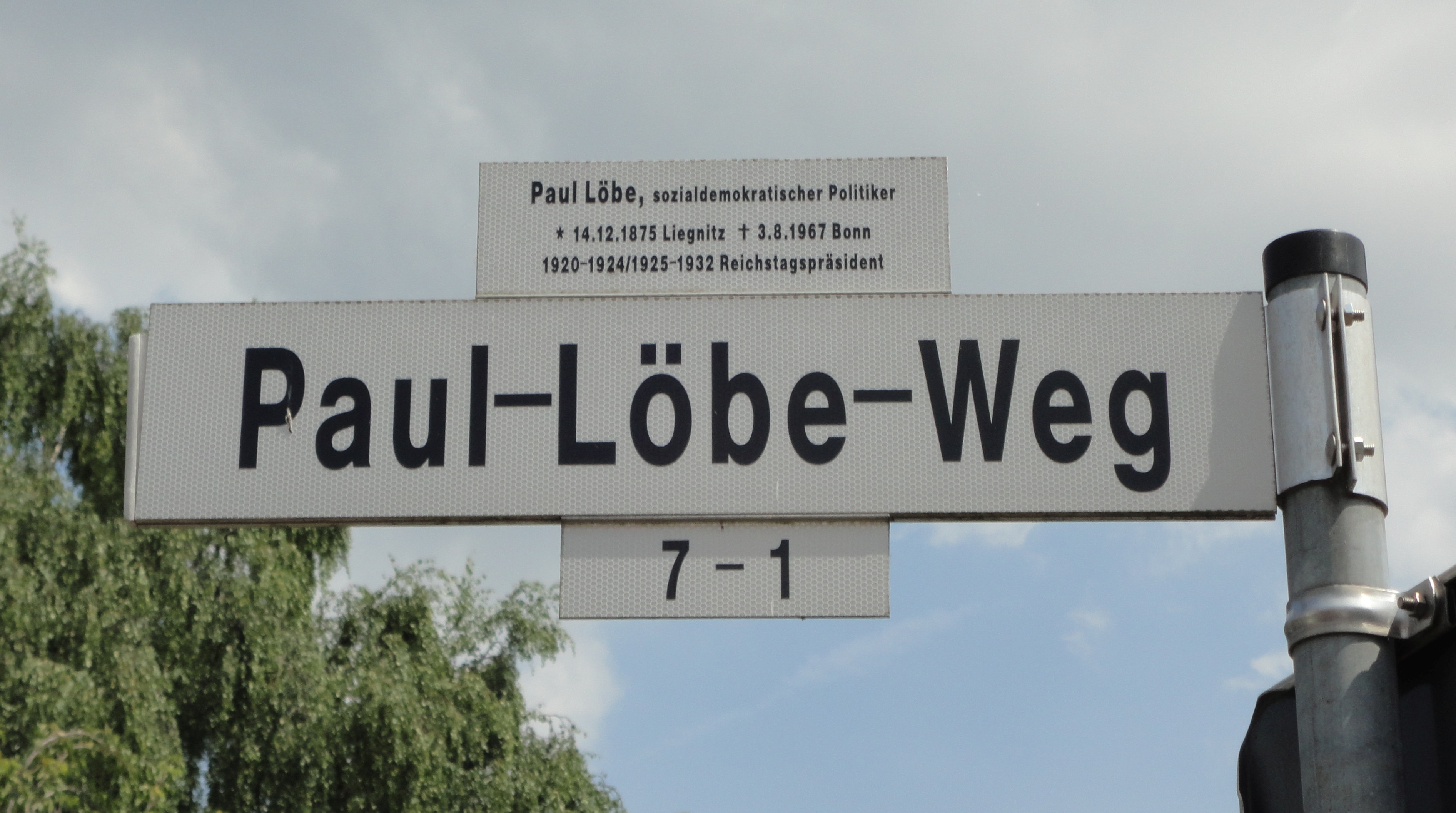 Göttingen-Weende, Paul-Löbe-Weg